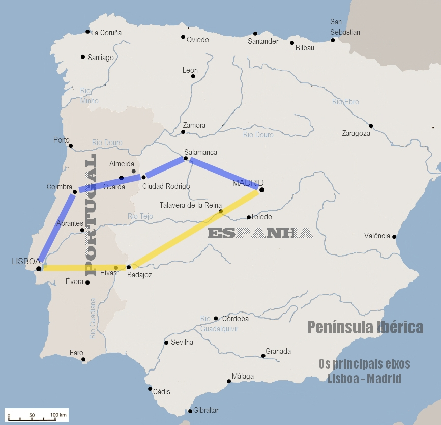 Representation of the main routes of communication Lisbon-Madrid